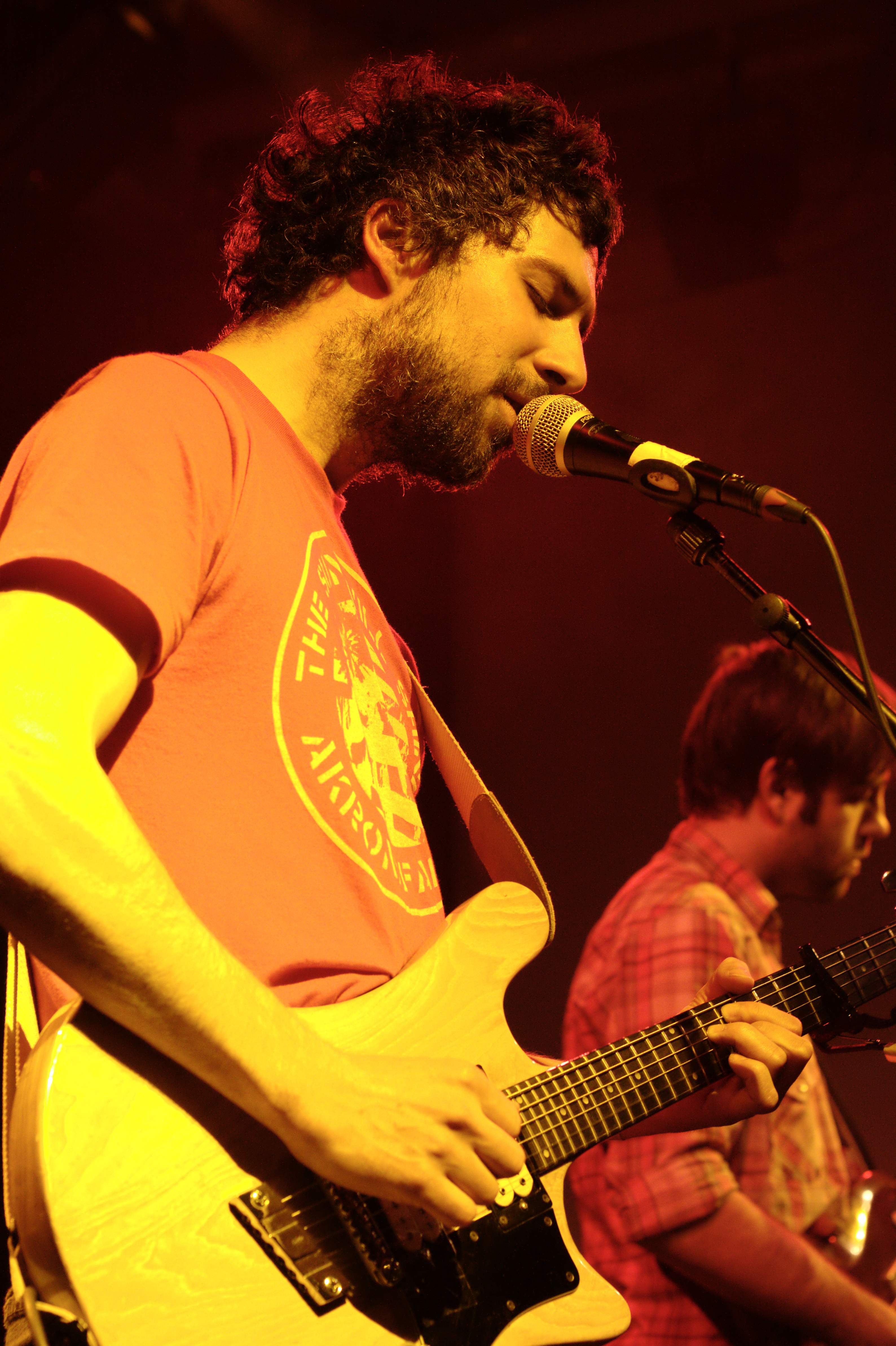 Rolf Klausener of The Acorn, performing in Amsterdam, 2009